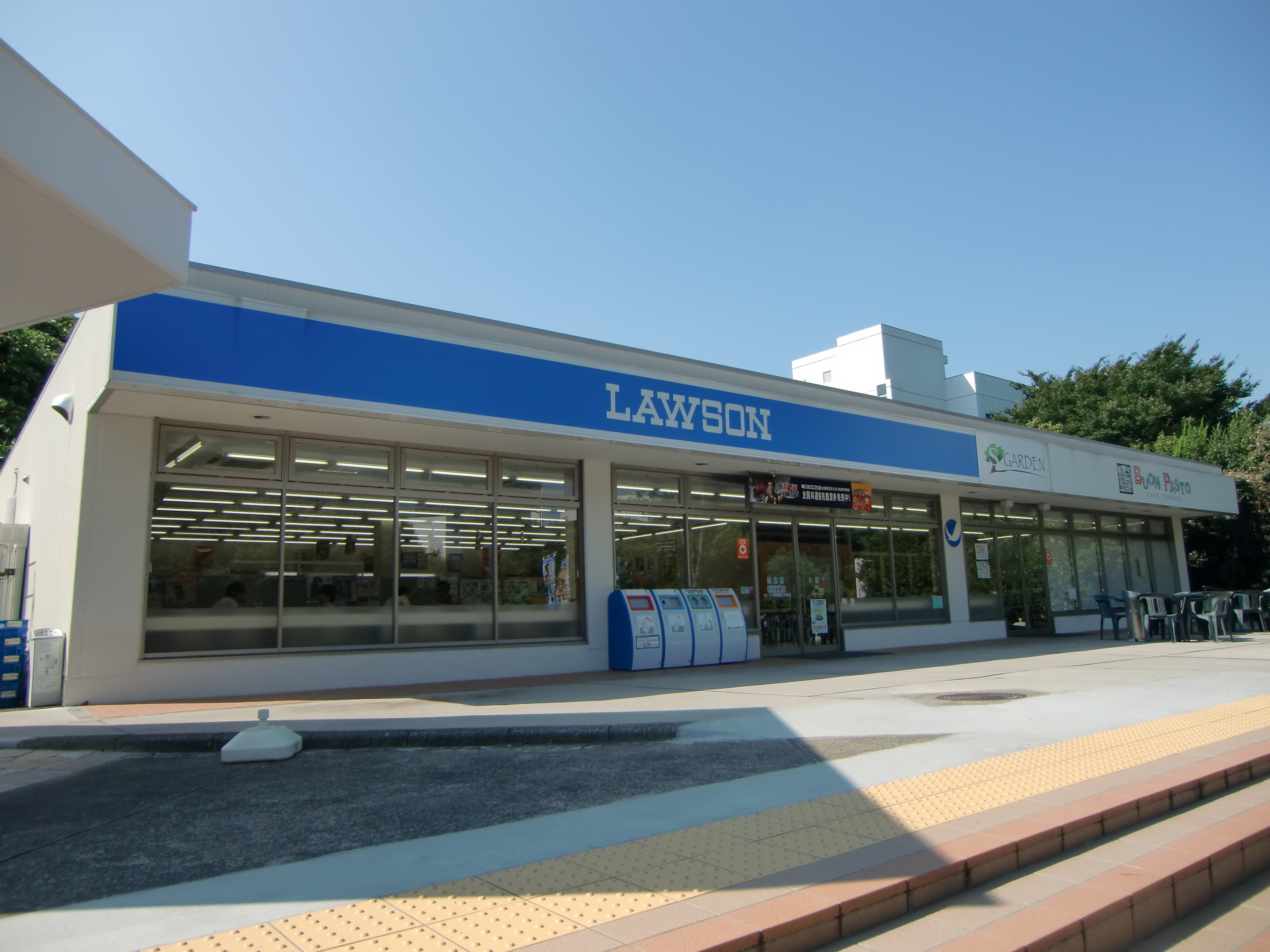 LAWSON(Japanese convenience store) at Yokohama National Univ(YNU), Yokohama, Japan.